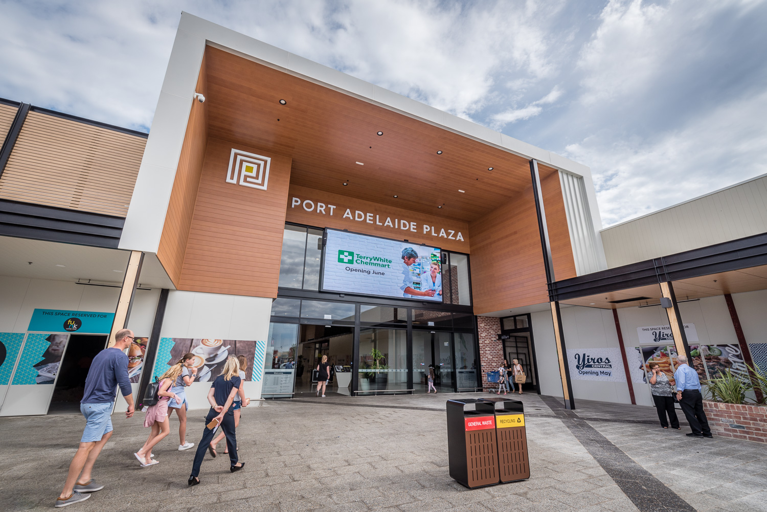 As part of stage 1 redevelopment on the Kmart/Aldi side of the mall.